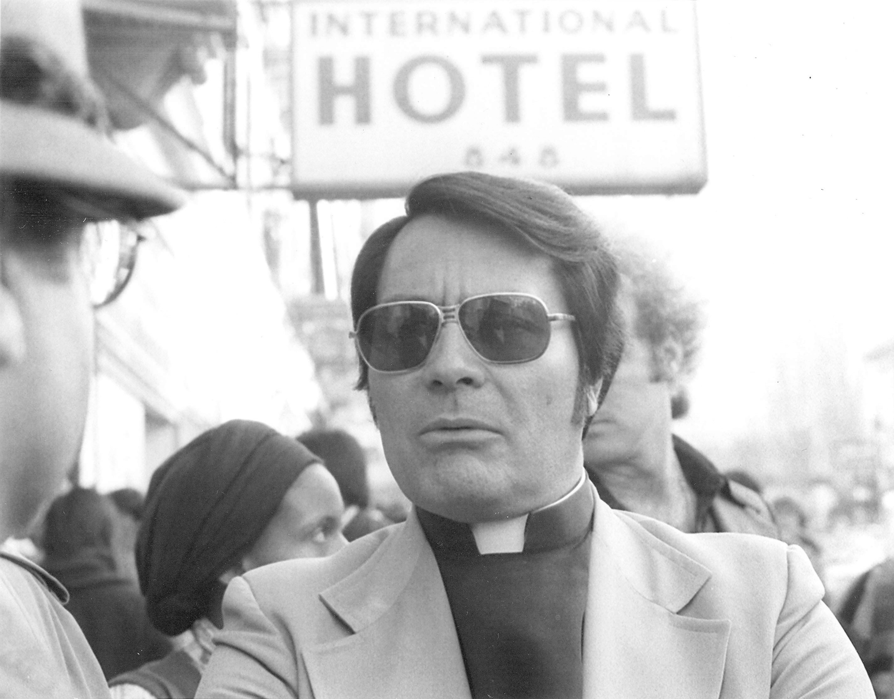 Rev. Jim Jones at an anti-eviction rally Sunday, January 16, 1977 in front of the International Hotel, Kearny and Jackson Streets, San Francisco Photo by Nancy Wong